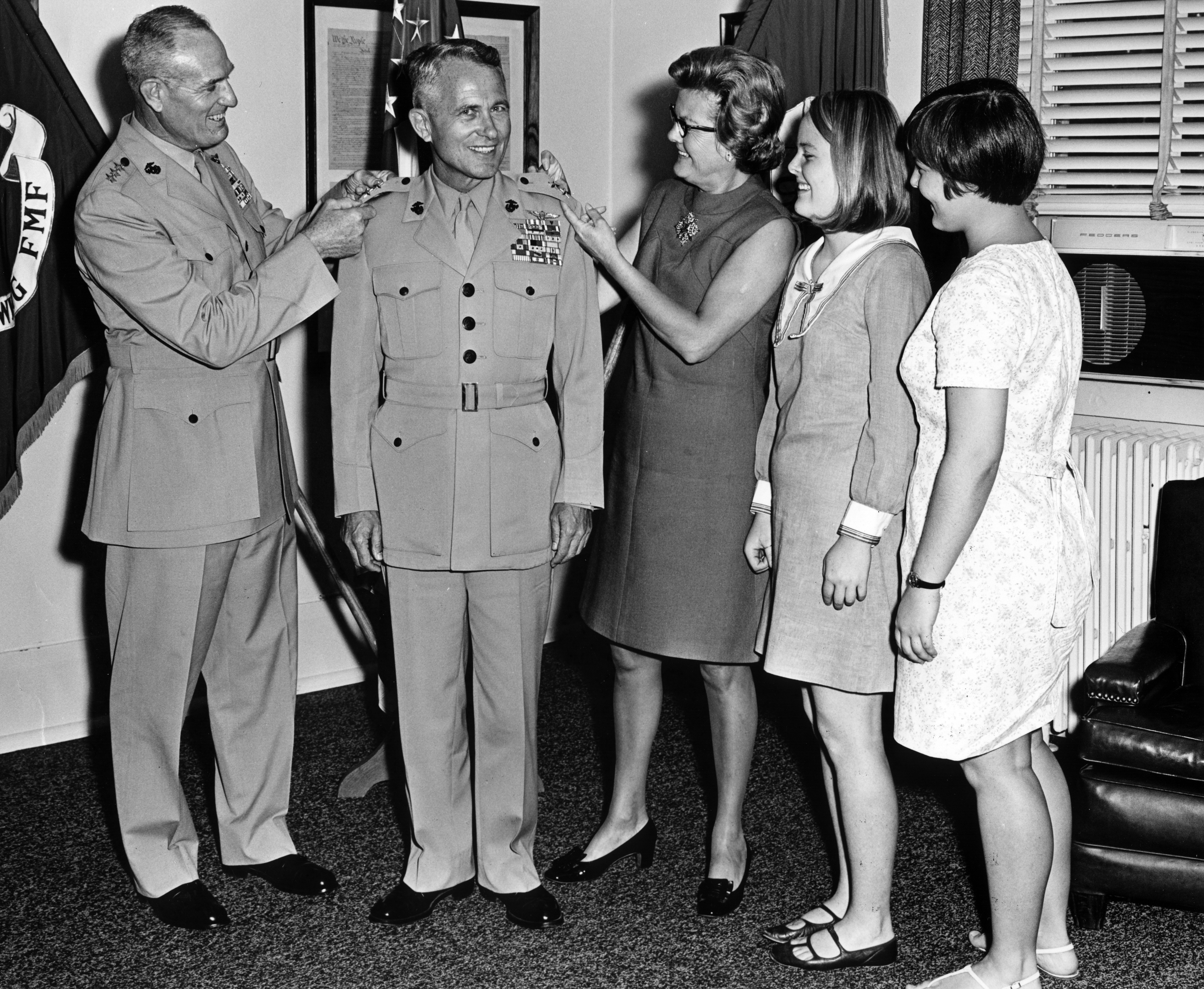 Two stars: Major general Robert P. Keller gets his new two-star rank insignia pinned on by Lieutenant general Louis B. Robertshaw and Mrs. Lucille Keller during a ceremony on August 4, 1969 at the Naval Air Station Glenview, Illinois. Major general Keller is Commanding General, 4th Marine Aircraft Wing and the Marine Air Reserve Training Command. Looking on are the General's two daughters Joan Elizabeth (2nd from right) and Anne Elaine.